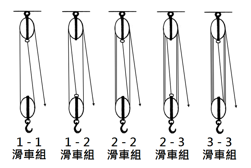 Different kinds of block and tackle